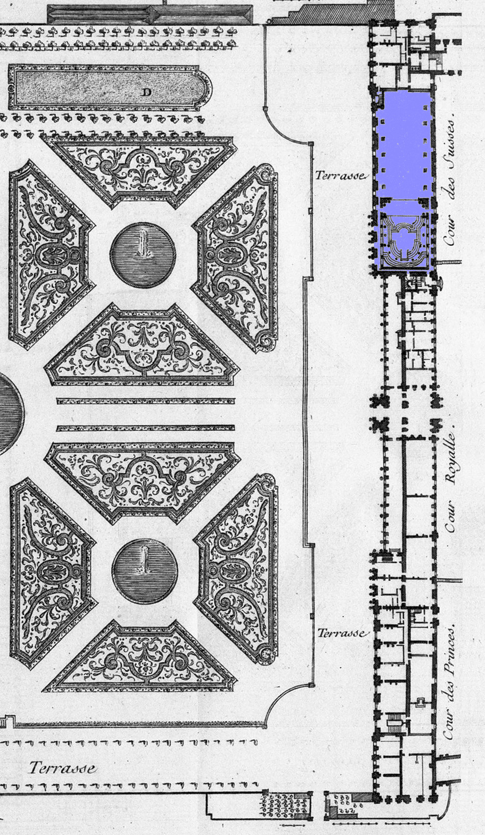 Detail from a general plan of the Tuileries Palace and Garden, showing the location of the Théâtre des Tuileries (marked in blue). From: Blondel, Jacques-François (1752–1756). Architecture françoise (in 4 volumes). Paris: Charles-Antoine Jombert.